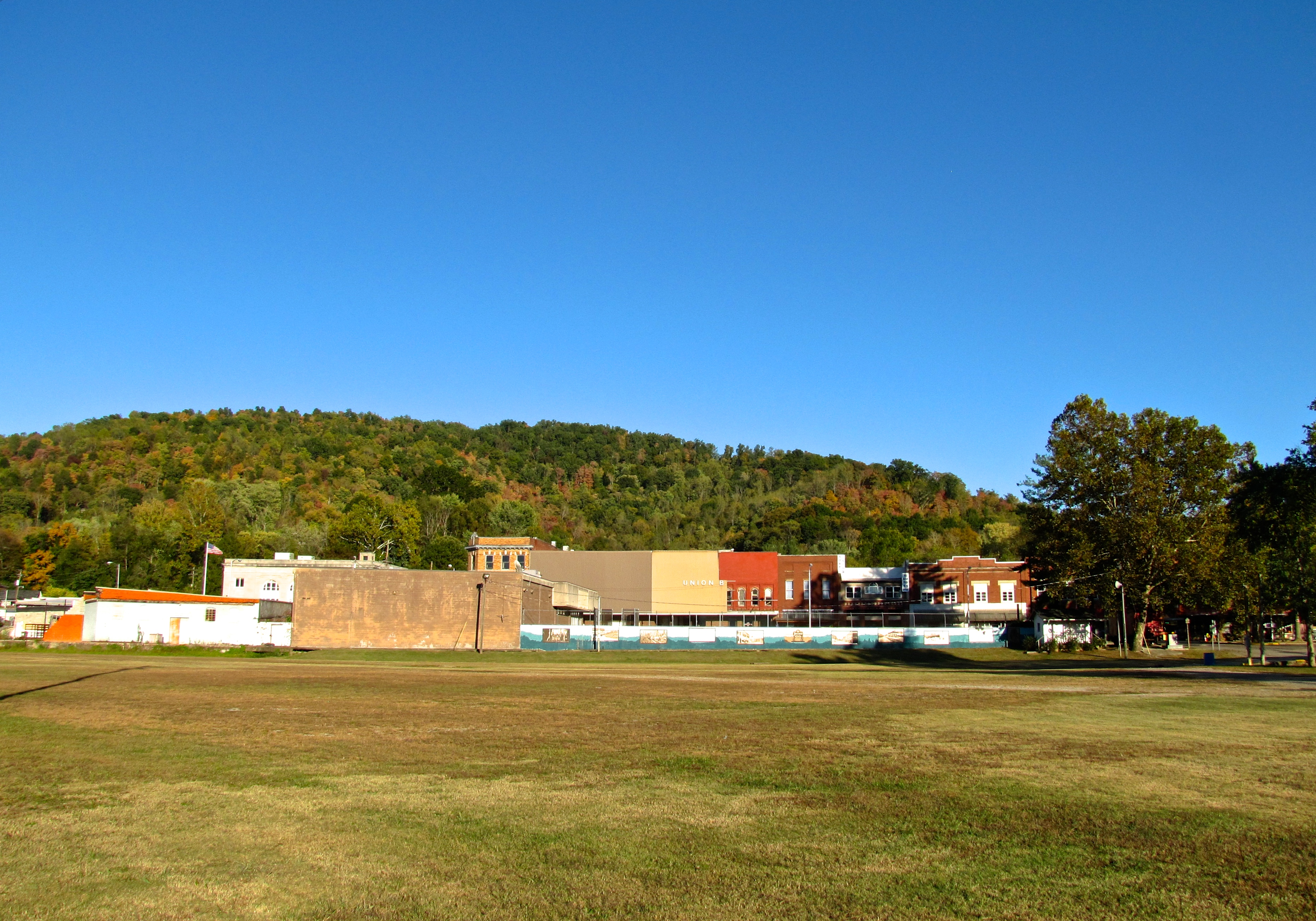 Buildings along North Main Street in Jellico, Tennessee, United States, viewed from the railroad tracks.